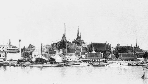 The Grand Palace of Bangkok around 1860s